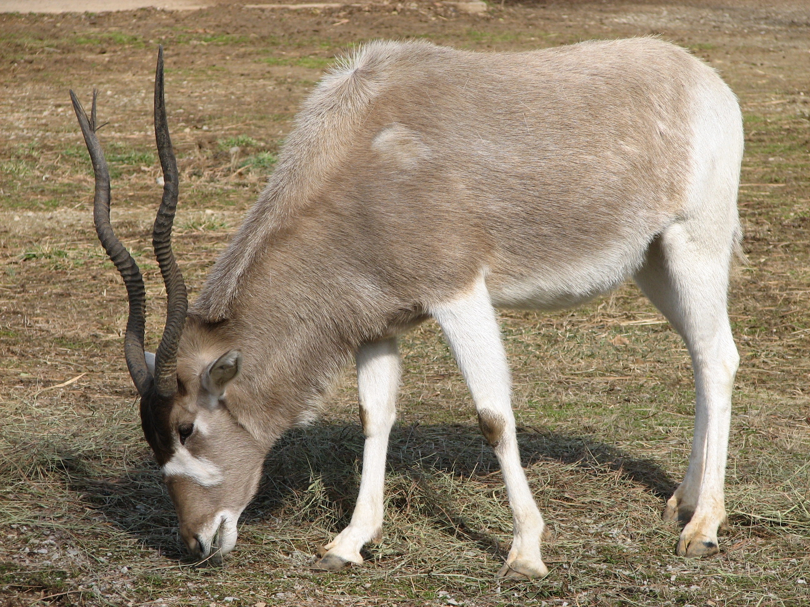 Addax (Addax nasomaculatus) at the Louisville Zoo